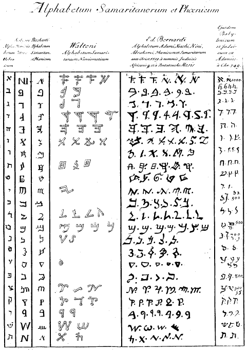 Phoenician and Samaritian script - 1709's Drawing